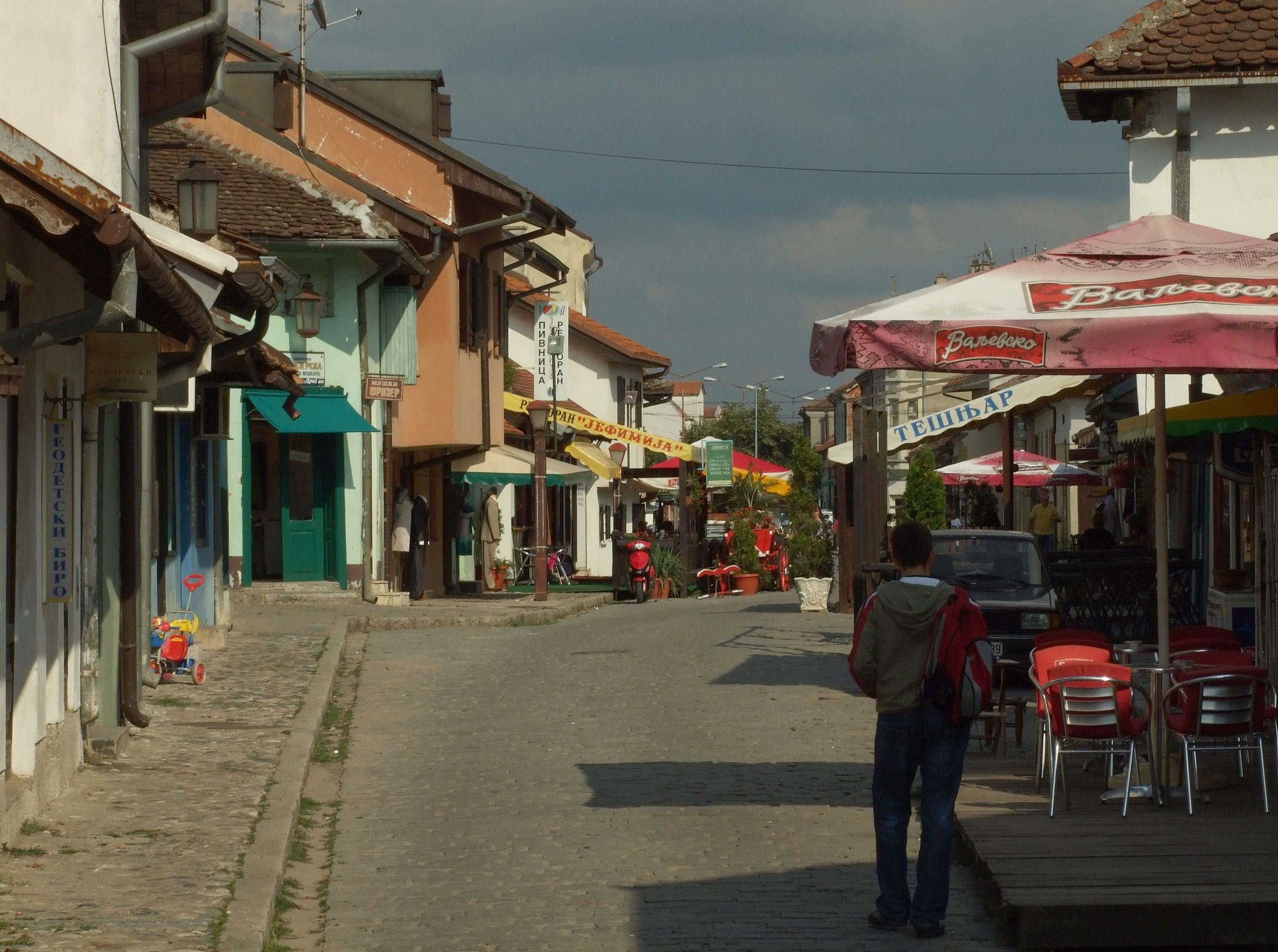 Tešnjar - main pedestrian area in the oldest part of the city of Valjevo, Serbia